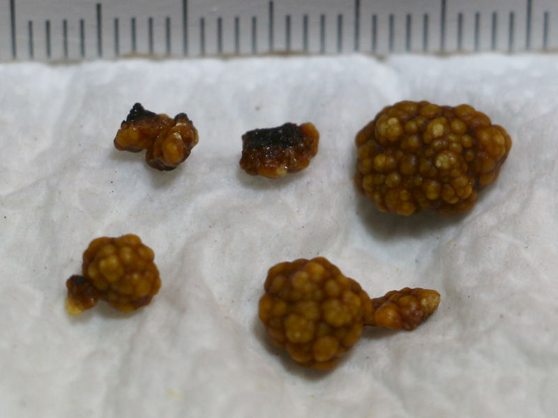 gall stones